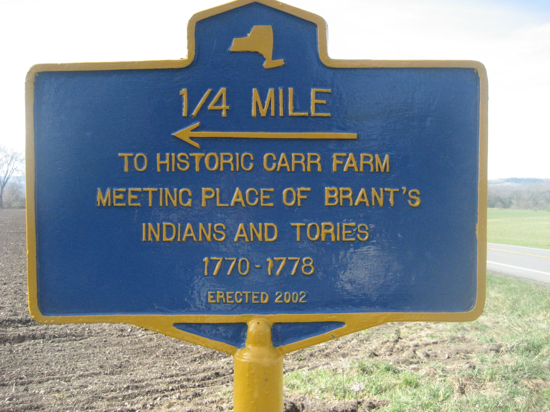 Historic marker of Carr farm, a meeting place of Brant's Indians and Tories from 1770 - 1778, in New Berlin, NY